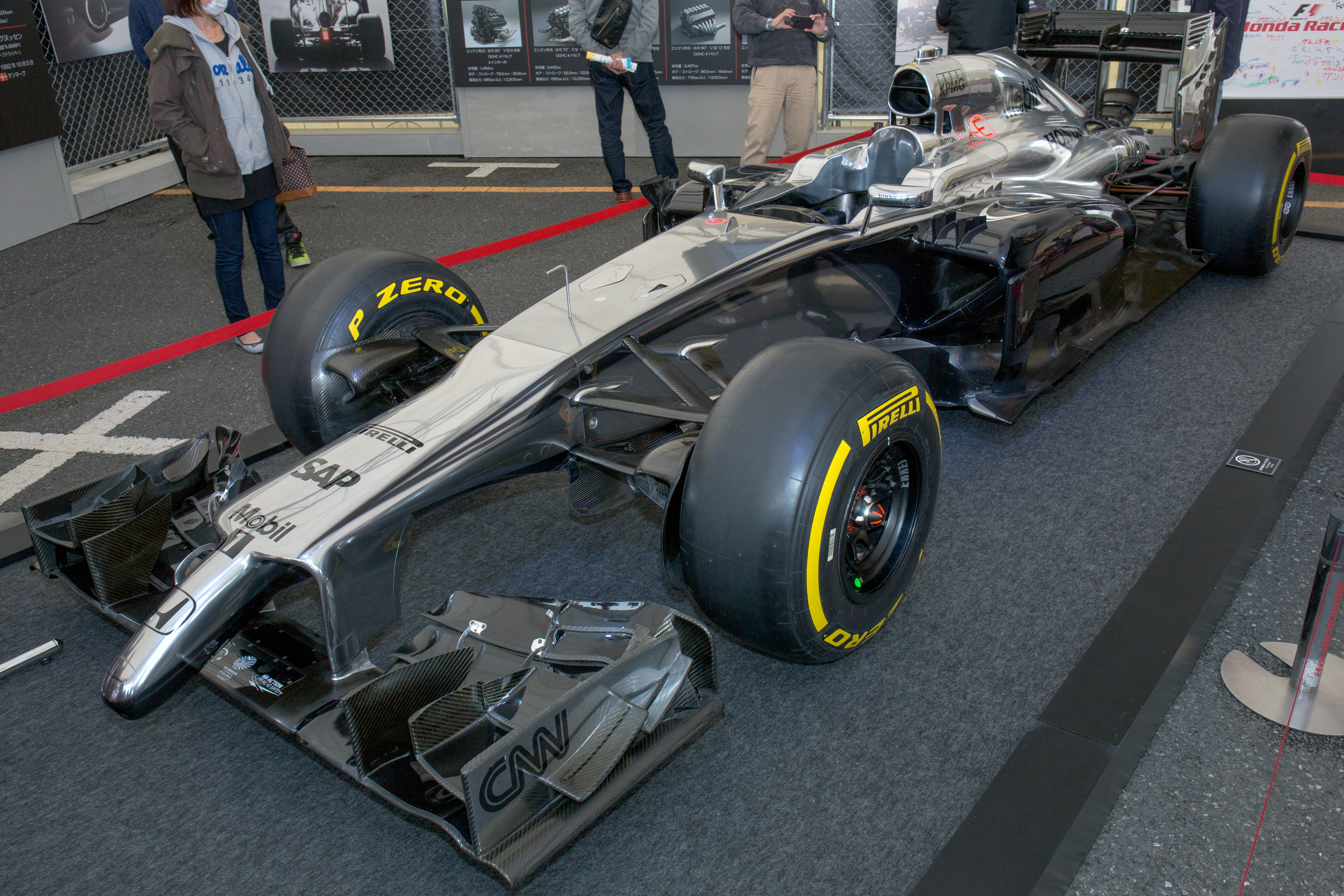 Motorsport Japan 2015: 2014 McLaren MP4/29H/1X1